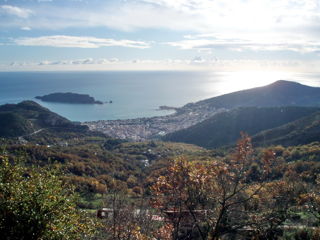 Budva (december).